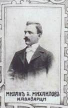 Portrait of Milan Popmihailov from IMARO - Tikvesh region